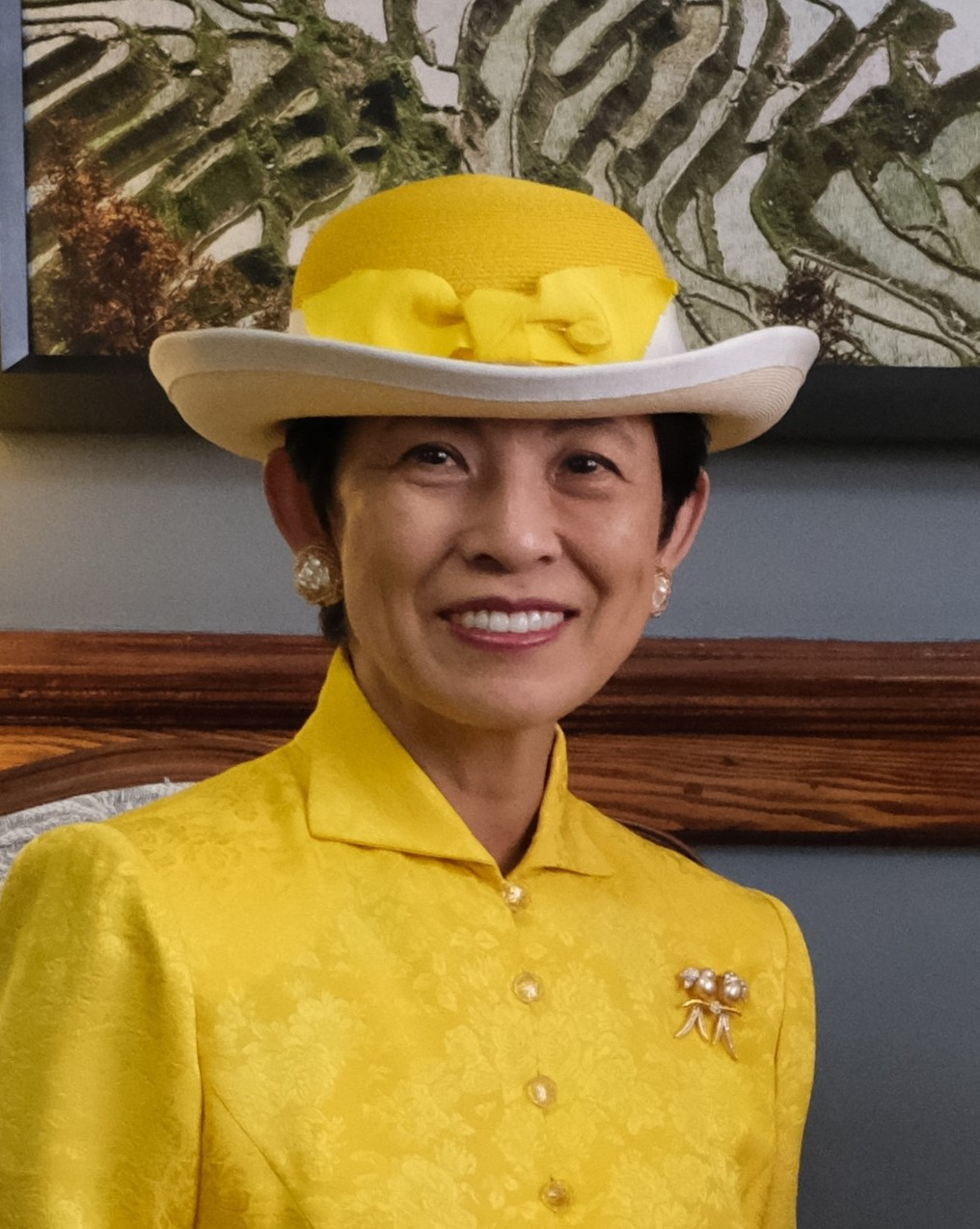 Her Honour and Her Imperial Highness